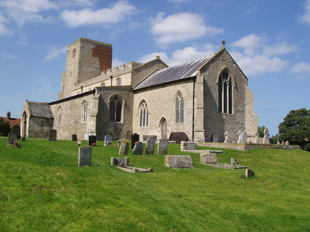 Morston Church. On high ground overlooking the North Sea, Morston is one many imposing churches in North Norfolk. All Saints dates back to the 12th century and has always served the fishing community of the nearby tiny village. Sir Alfred Munnings loved the church and he was painting it on 3rd December 1939, the day war was declared. Today, Morston is place to go for fishing expeditions and boat trips to see the seals.